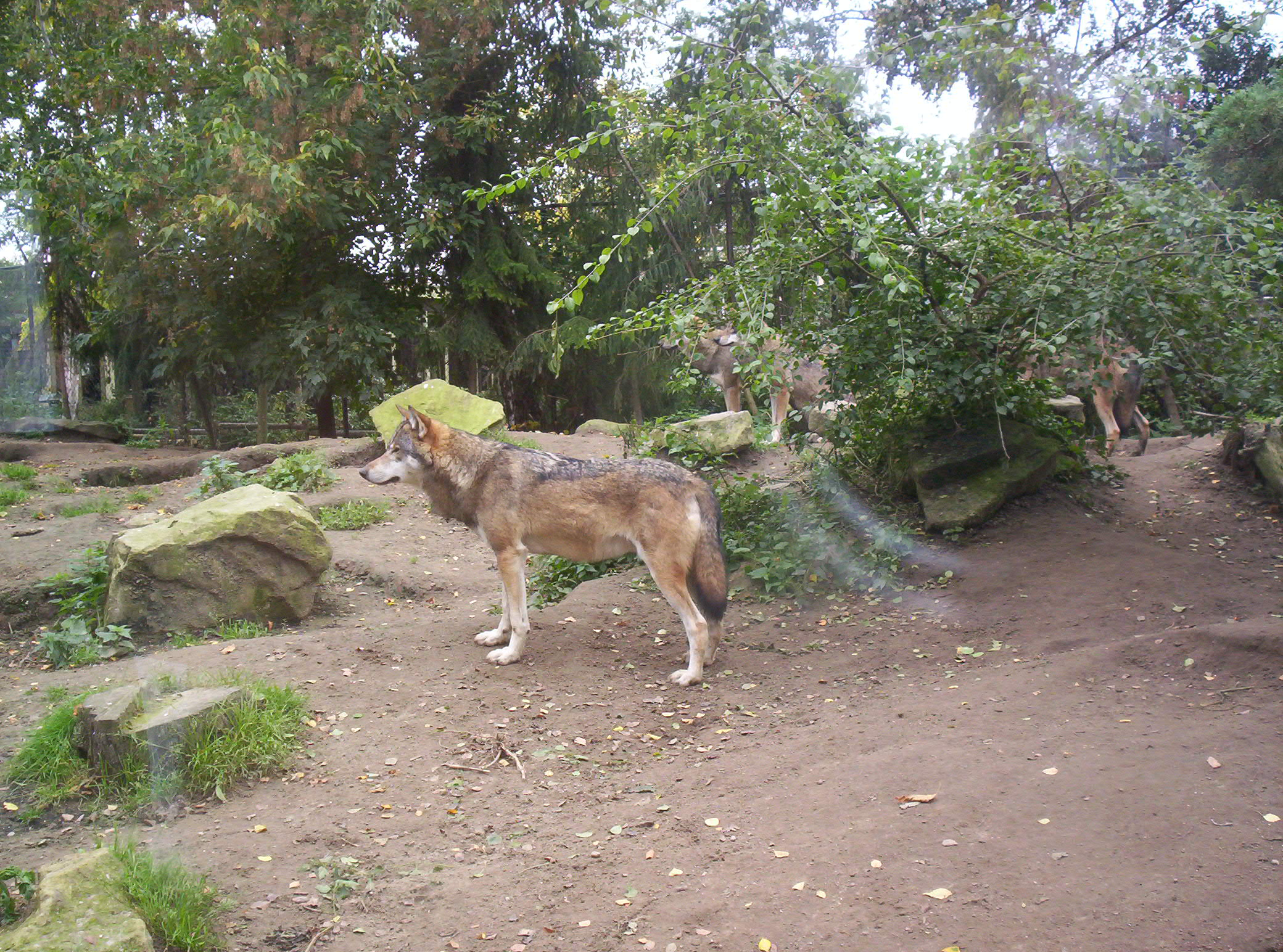 Wolf